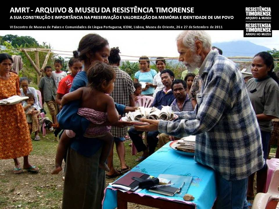 Recolha de documentos da Resistência